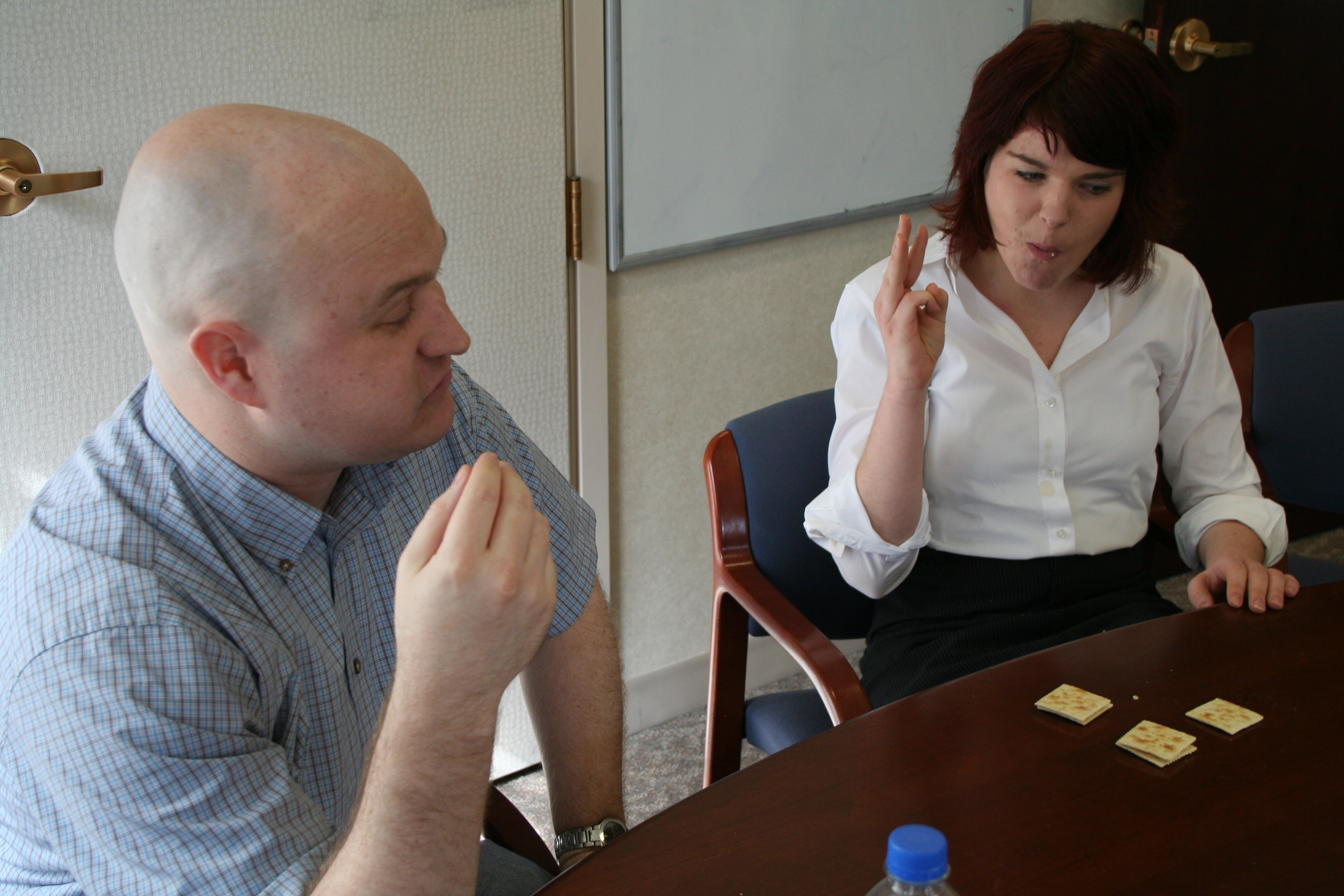 Two office workers competing to eat as many saltines as possible under a time limit. Original title: "Three for Tracy, Brent's Still Chomping on His First Three", subtitle: "Saltine Crackers SUCK!! ;-)"